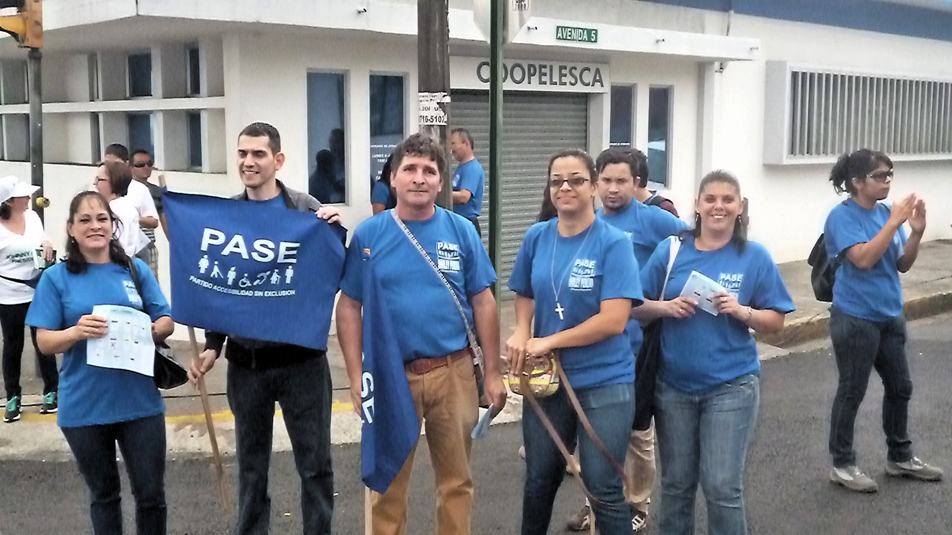 Accessibility without Exclusion supporters at Quesada during Costa Rican general election, 2014.